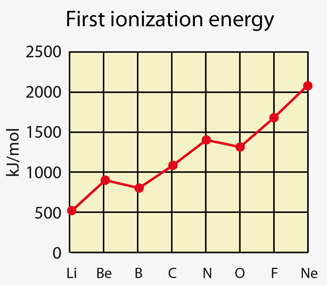 First ionization energy for period 2 elements